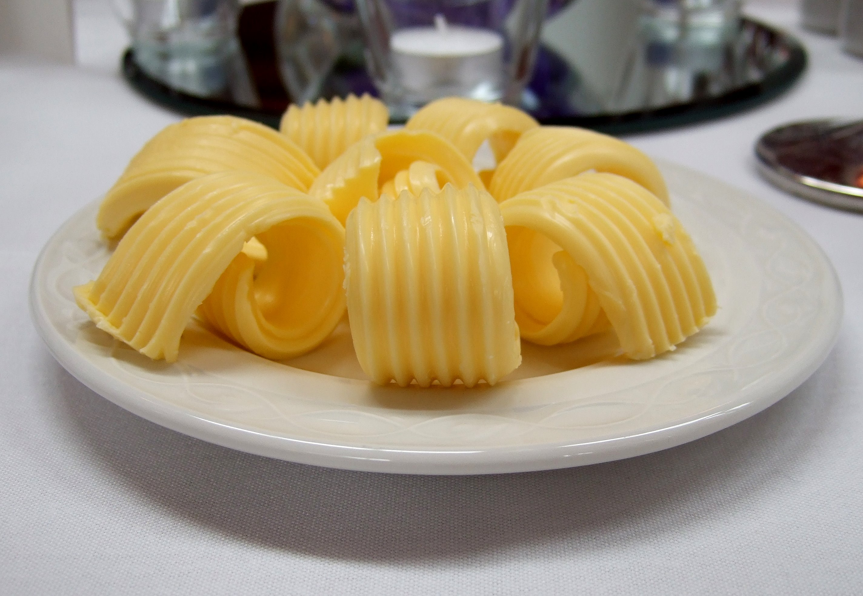 Butter curls on a plate.